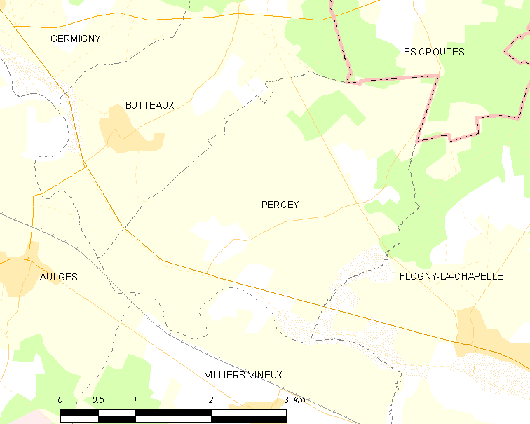 Map of French municipality Percey